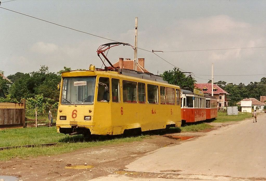 Timiş type tram and Swiss standard tram in Sibiu